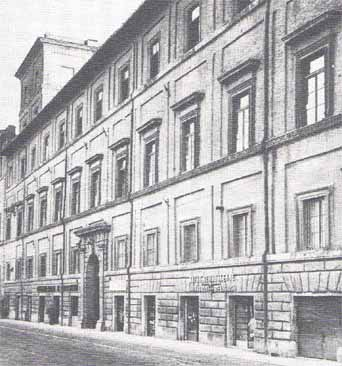 The Palazzo Cesi in Borgo before 1939